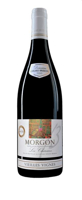 Morgon Vieilles-Vignes Domaine Brisson One of the best wines of Morgon